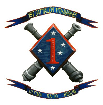 1st Battalion 11th Marines Logo